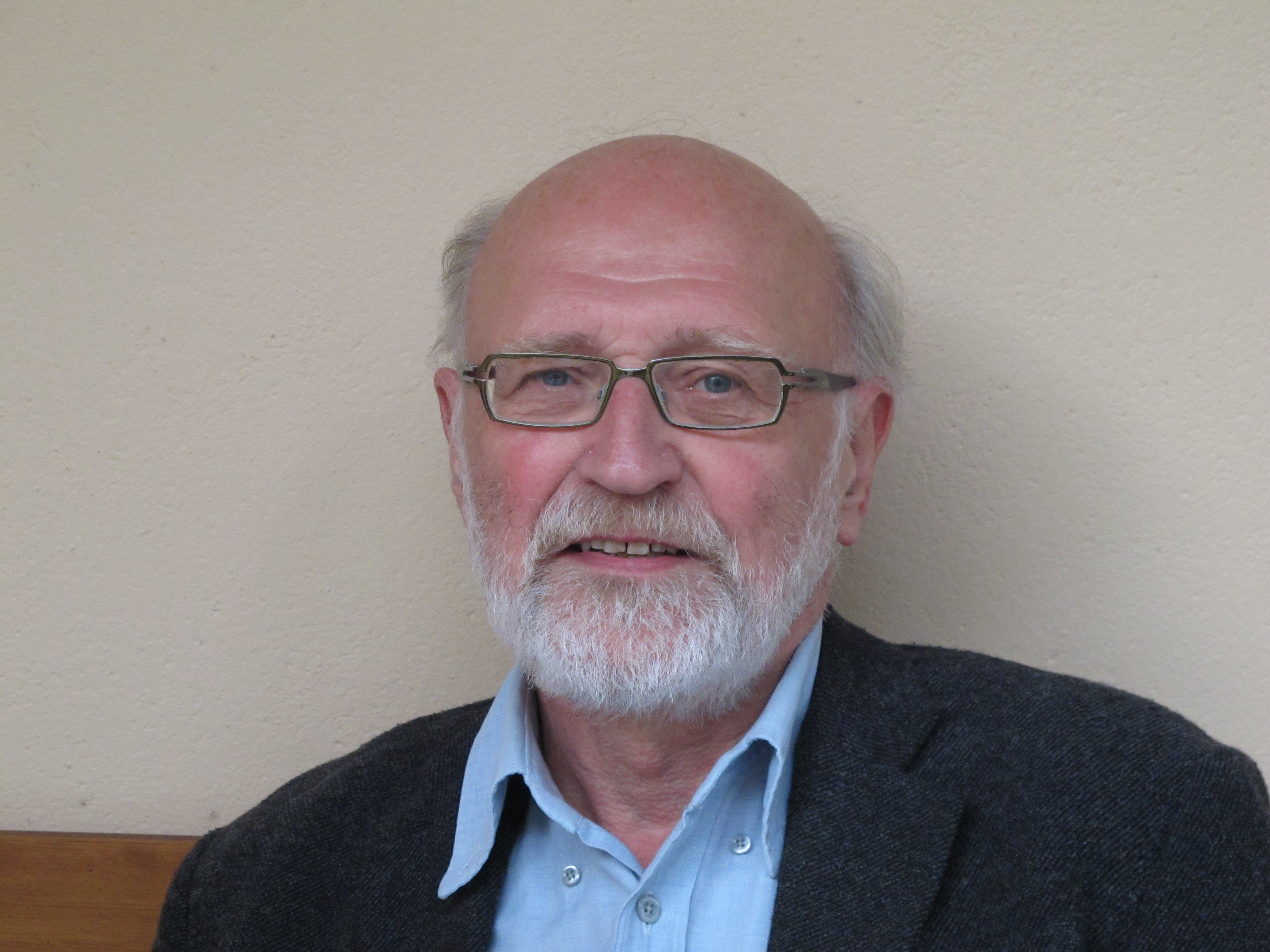 Martin Schlegel, Game designer from Hagen, Germany